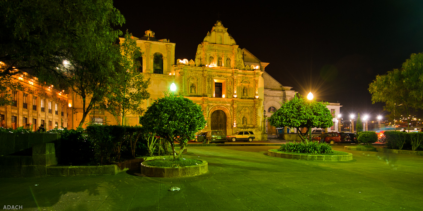 Parque Central, Quetzaltenango, Guatemala, at night